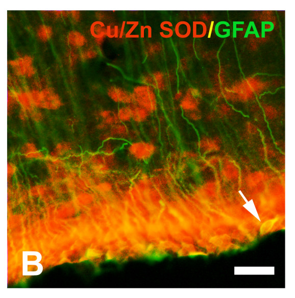 Glial distribution of Cu/Zn SOD immunoreactivity in intact immature brain. Cu/Zn SOD was not observed in the GFAP-expressing astrocyte population of the brain parenchyma (A: cortex, confocal image). However, GFAP-expressing astrocytes showed co-localization with Cu/Zn SOD in the glia limitans (C, confocal image) and in the ventricle walls (B: third ventricle; arrow: tanycyte). Microglial cells and endothelium (arrow), identified with tomato lectin histochemistry, were negative for Cu/Zn SOD (D: cortex; confocal image). Scale bars in A: 40 μm; in B, C and D: 20 μm. Peluffo et al. Journal of Neuroinflammation 2005 2:12